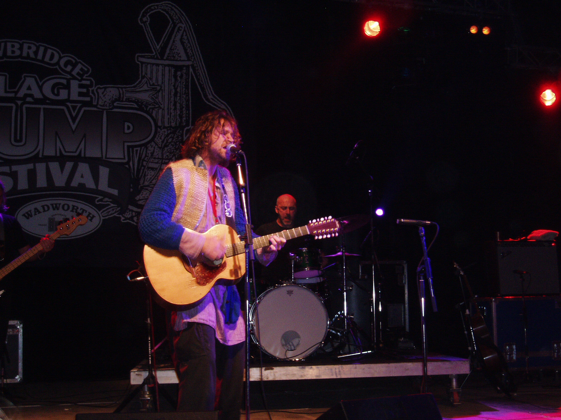 Liam Ó Maonlaì (Hothouse Flowers) at the Trowbridge Village Pump Festival 2007